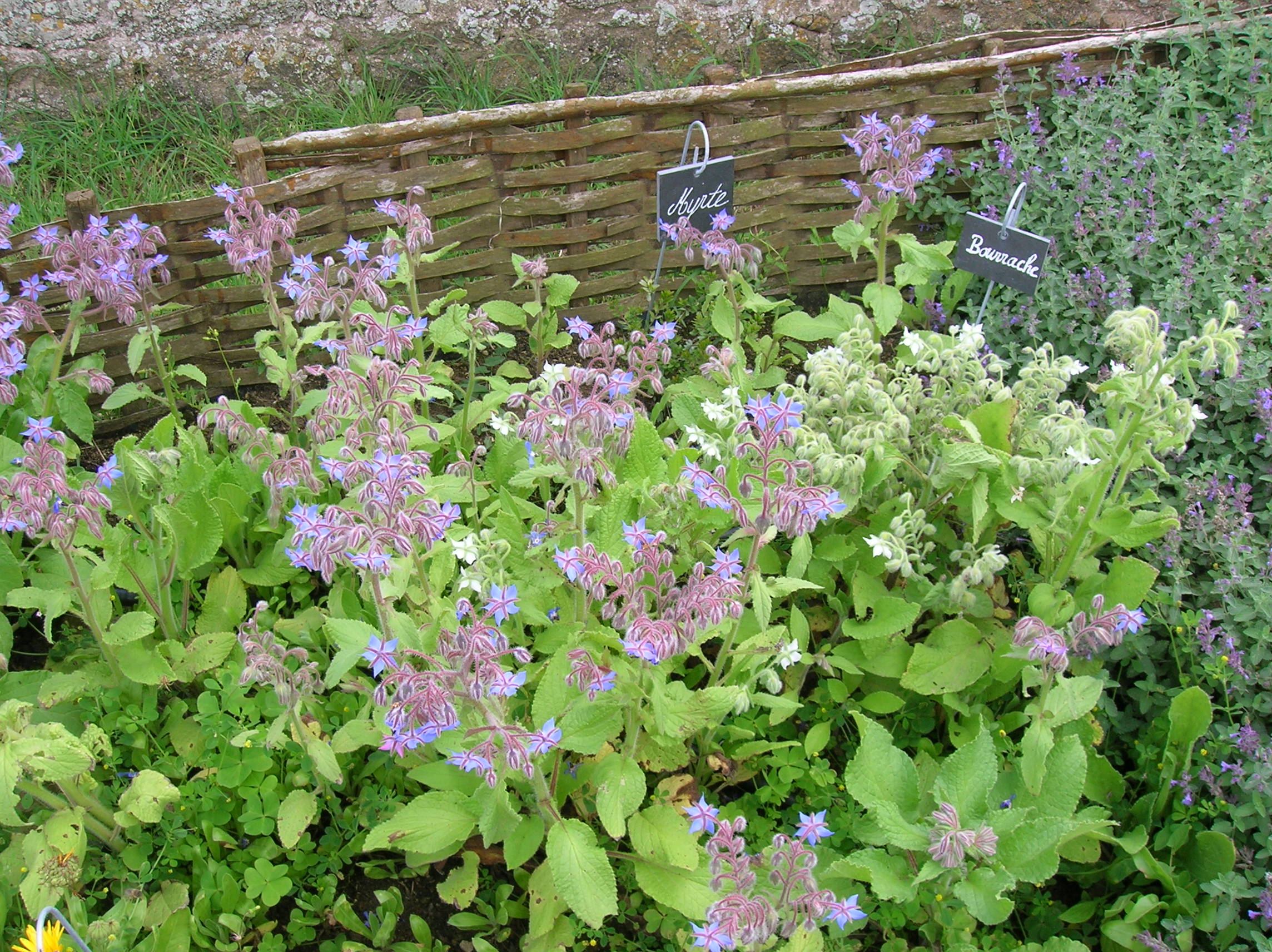 Boraginaceae : Bourrache (Borago)